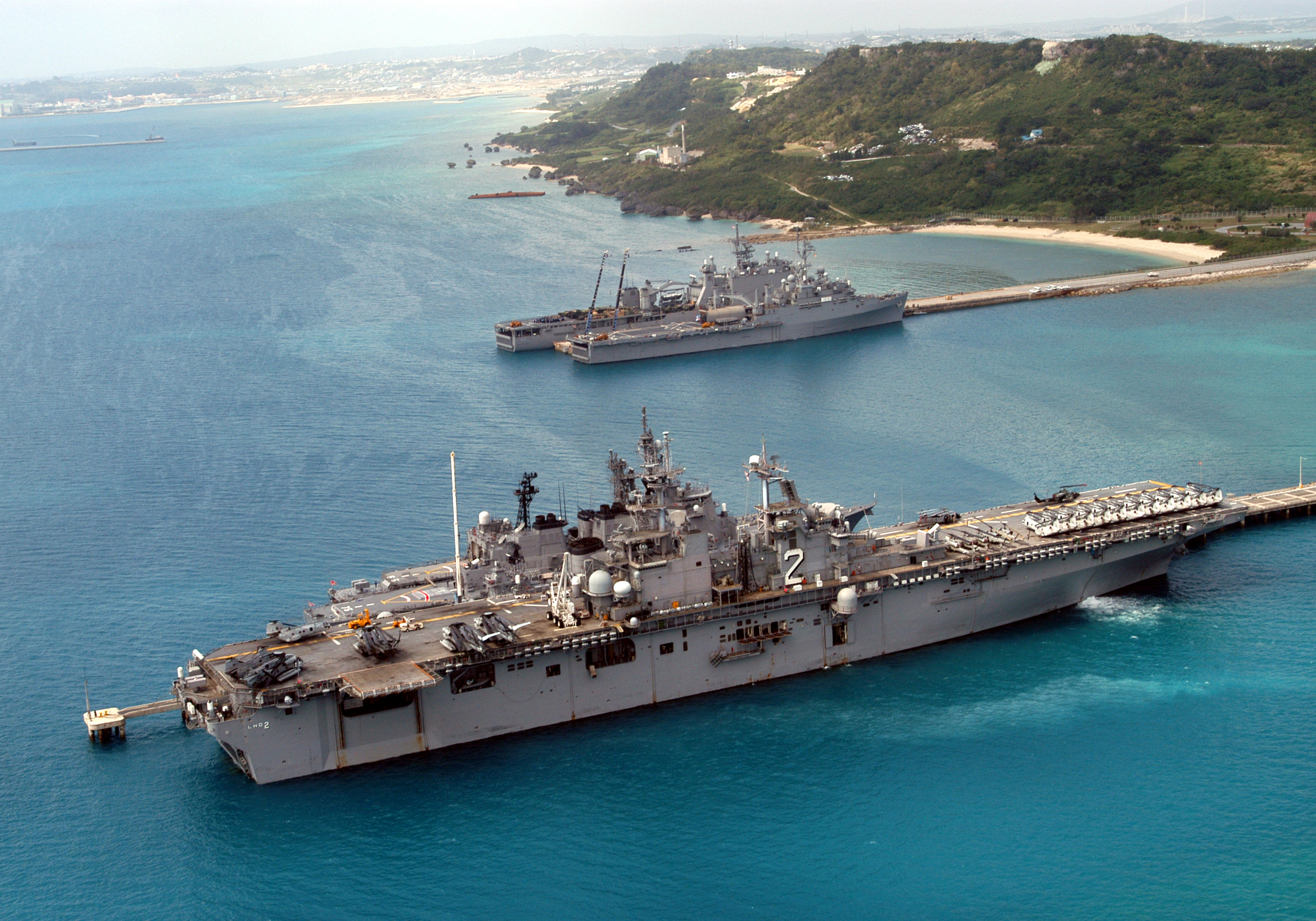 White Beach Port Facility, Okinawa, Japan (Feb. 28, 2003) - A busy day for the White Beach Port Facility in Okinawa, Japan as the amphibious assault ship USS Essex (LHD 2), Japanese Maritime Defense Force (JMSDF) ships Shimakaze (DDG 172), Myoukou (DDG 175), Hamagiri (DD 155), Natusio (SS 584), USS Juneau (LPD 10), and USS Fort McHenry (LSD 43) sit moored pierside. U.S. Navy photo by Photographer’s Mate 1st Class James G. McCarter. (RELEASED)